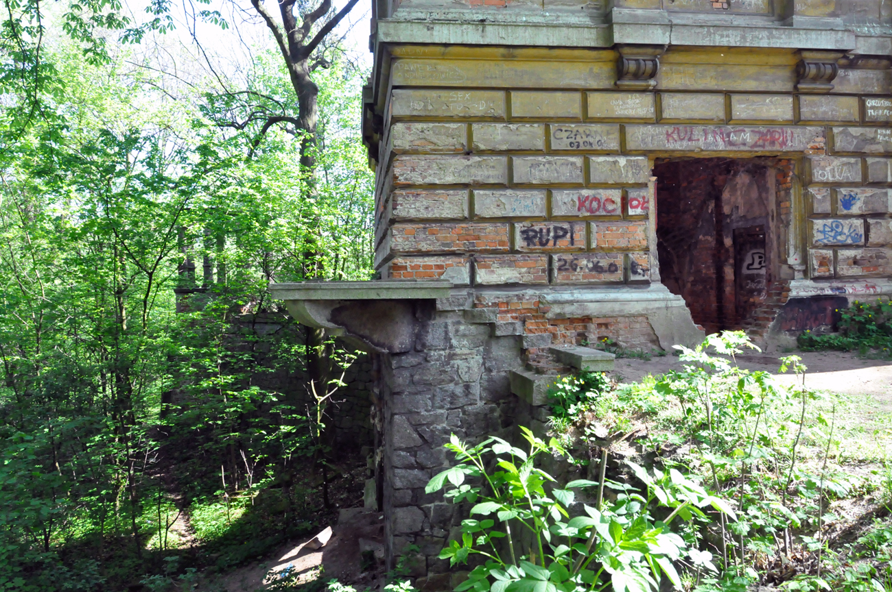 Terrace of the palace